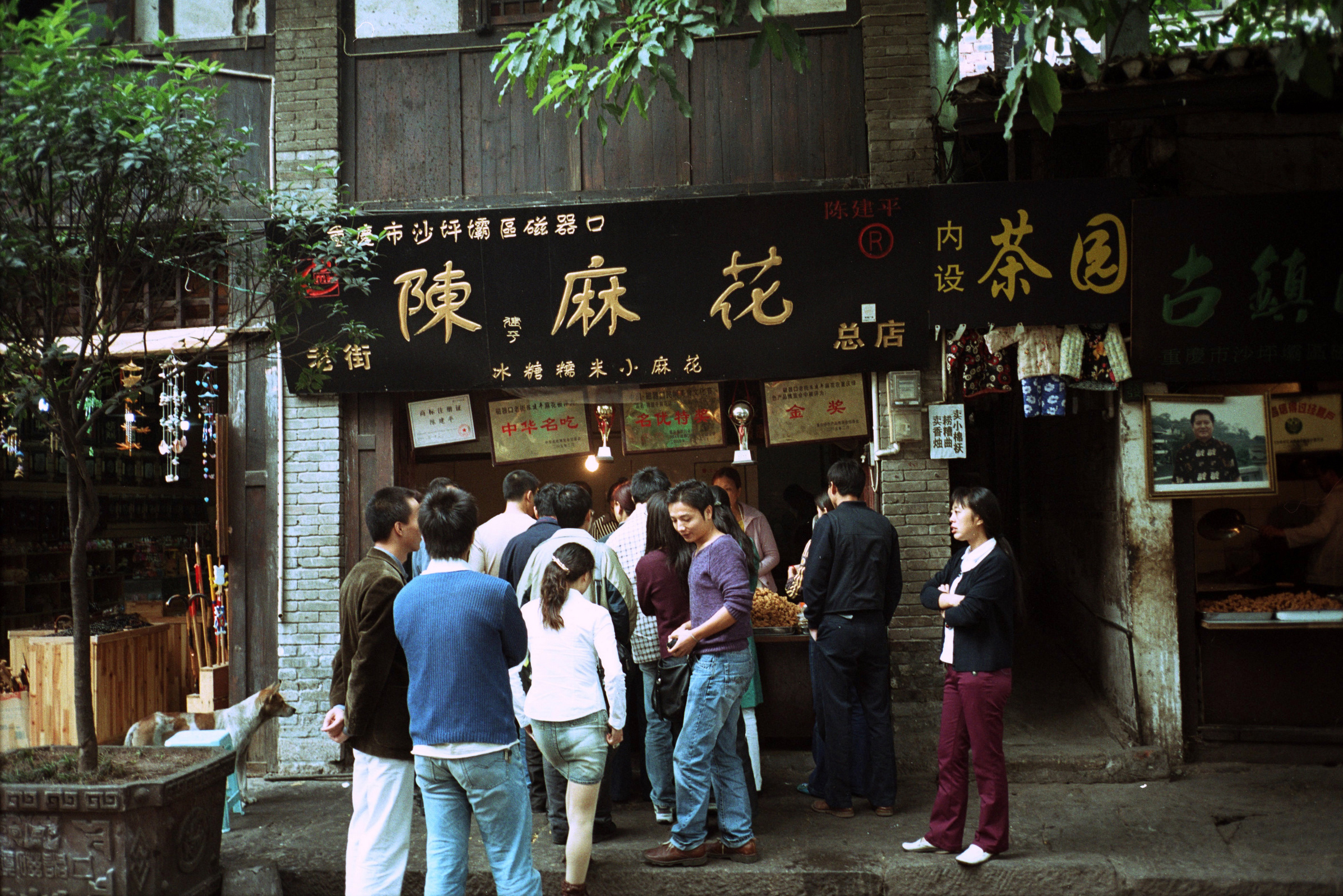 重庆小吃店 陈麻花 A popular snack shop in Chongqing: Dough twist Chen